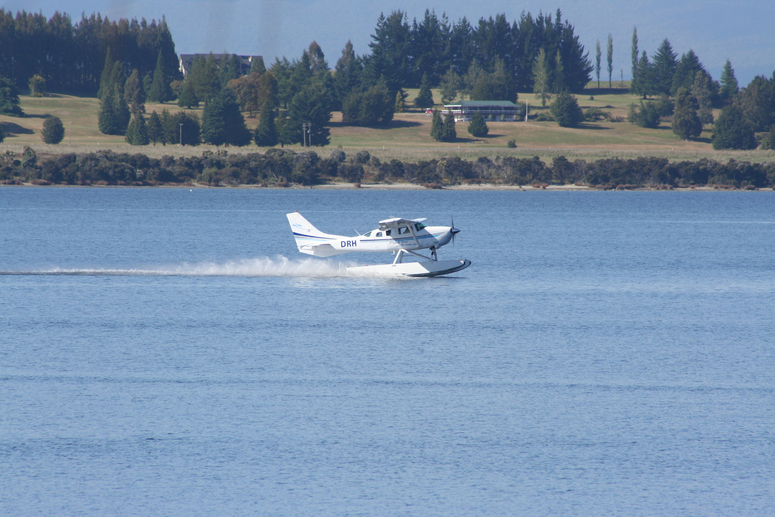 Lake Te Anau water taxi, South Island, New Zealand